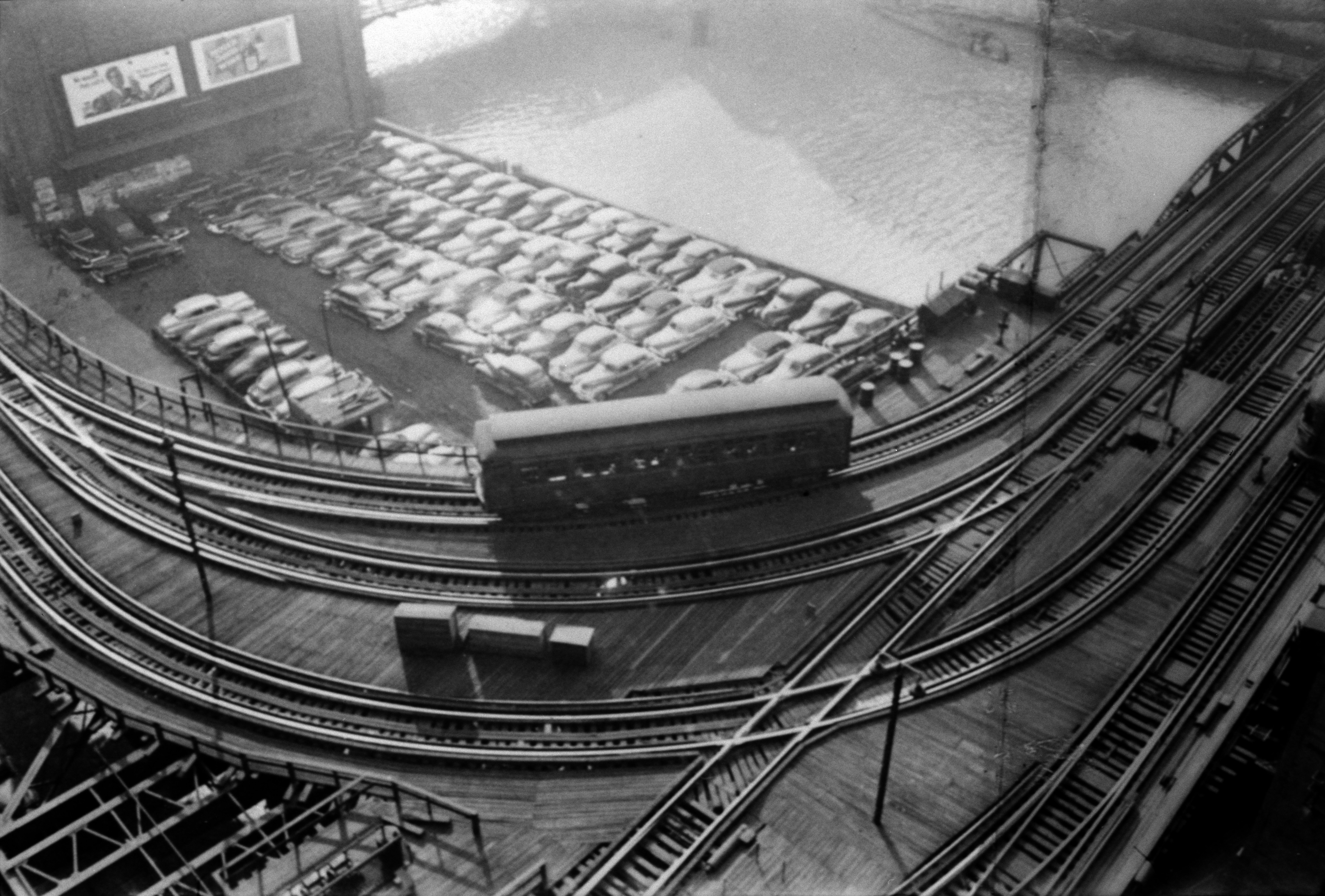 Overhead view of the "L" elevated railway in Chicago, Illinois.